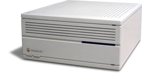 This is an image I took of my Macintosh IIci. This Mac was donated to my collection by Brett Sanko.